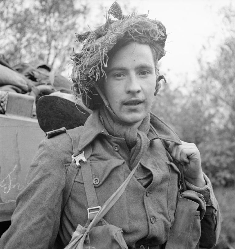 The British Army in North-west Europe 1944-45 Pte A Anderson of the 2nd Monmouthshire Regiment, 59th (Welsh) Division, during the assault on Venraij, 17 October 1944.